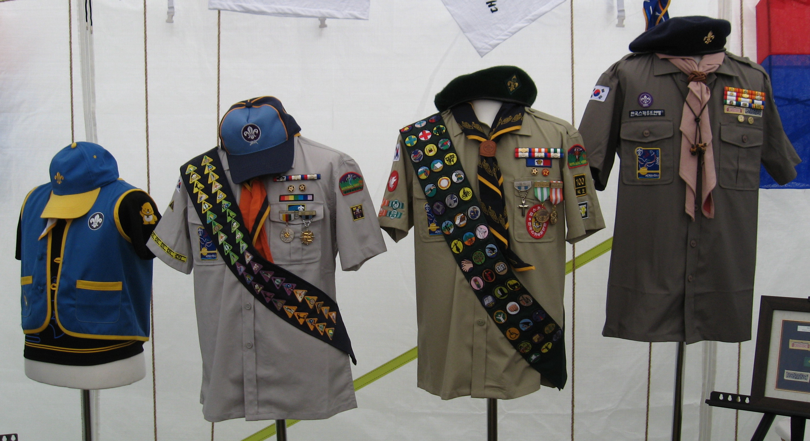 Korean Scout uniforms on exhibition during the 21st World Scout Jamboree 2007